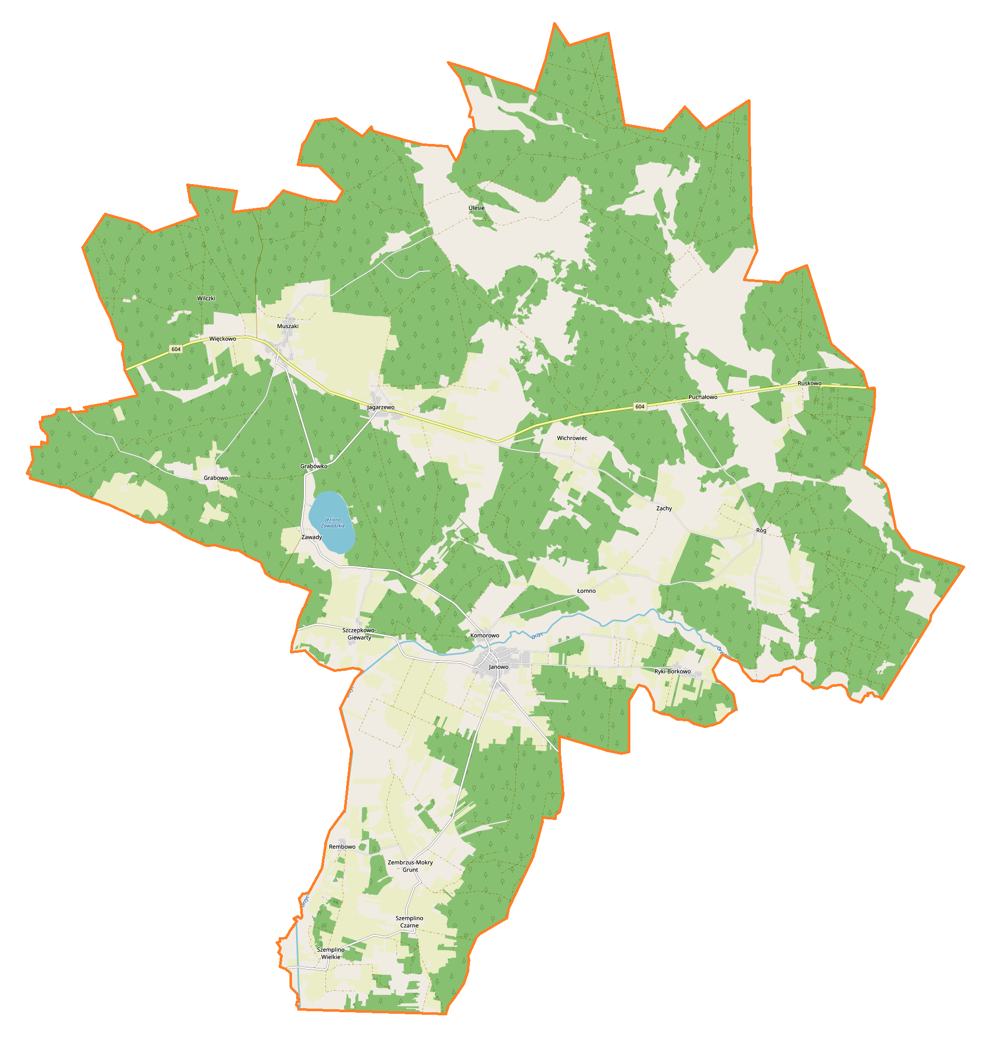 Location map